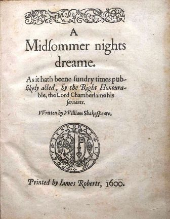 This is the Pavier mis-dated pirated version of Shakespeare's 1600 quarto.